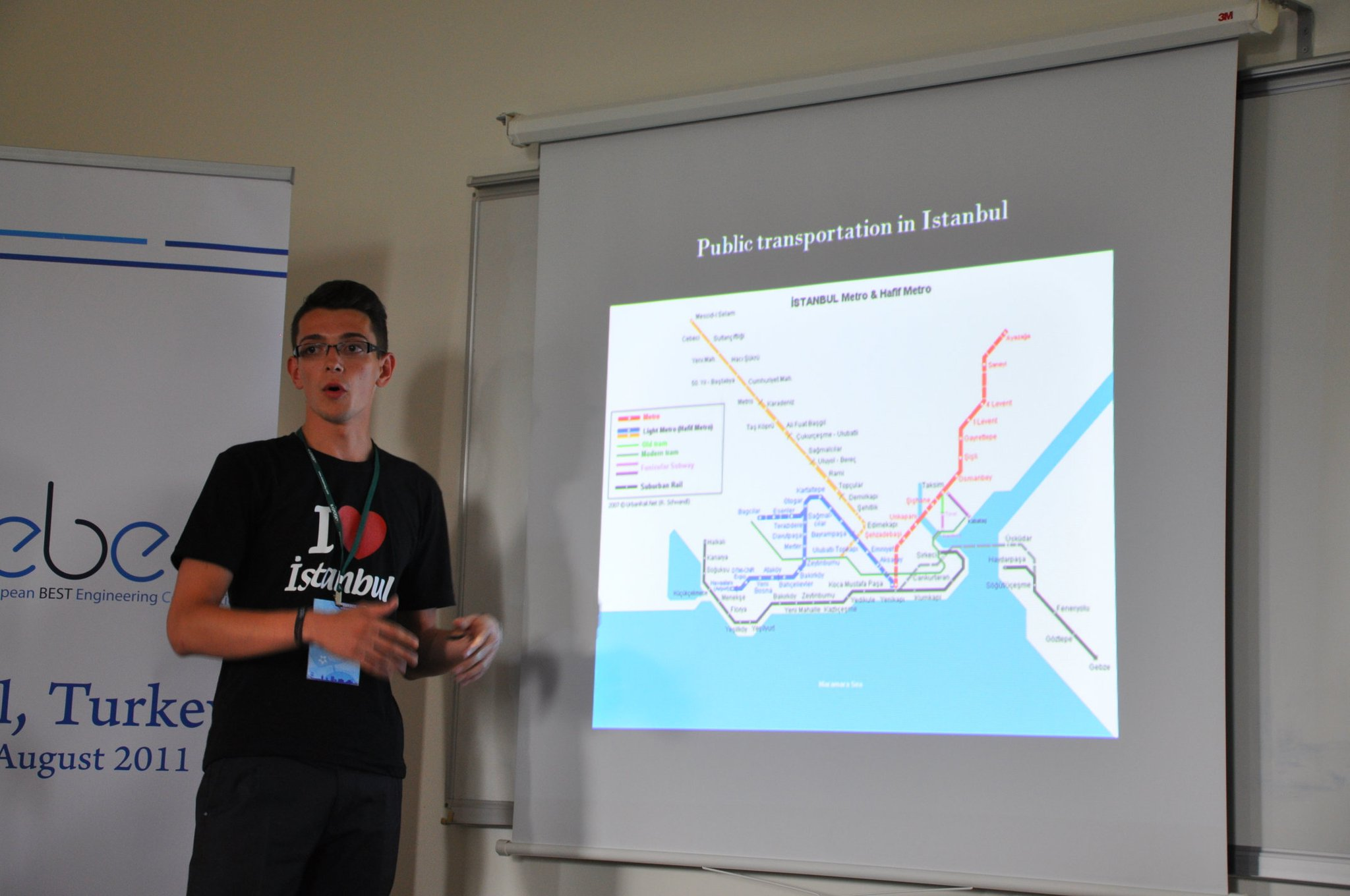 Case Study